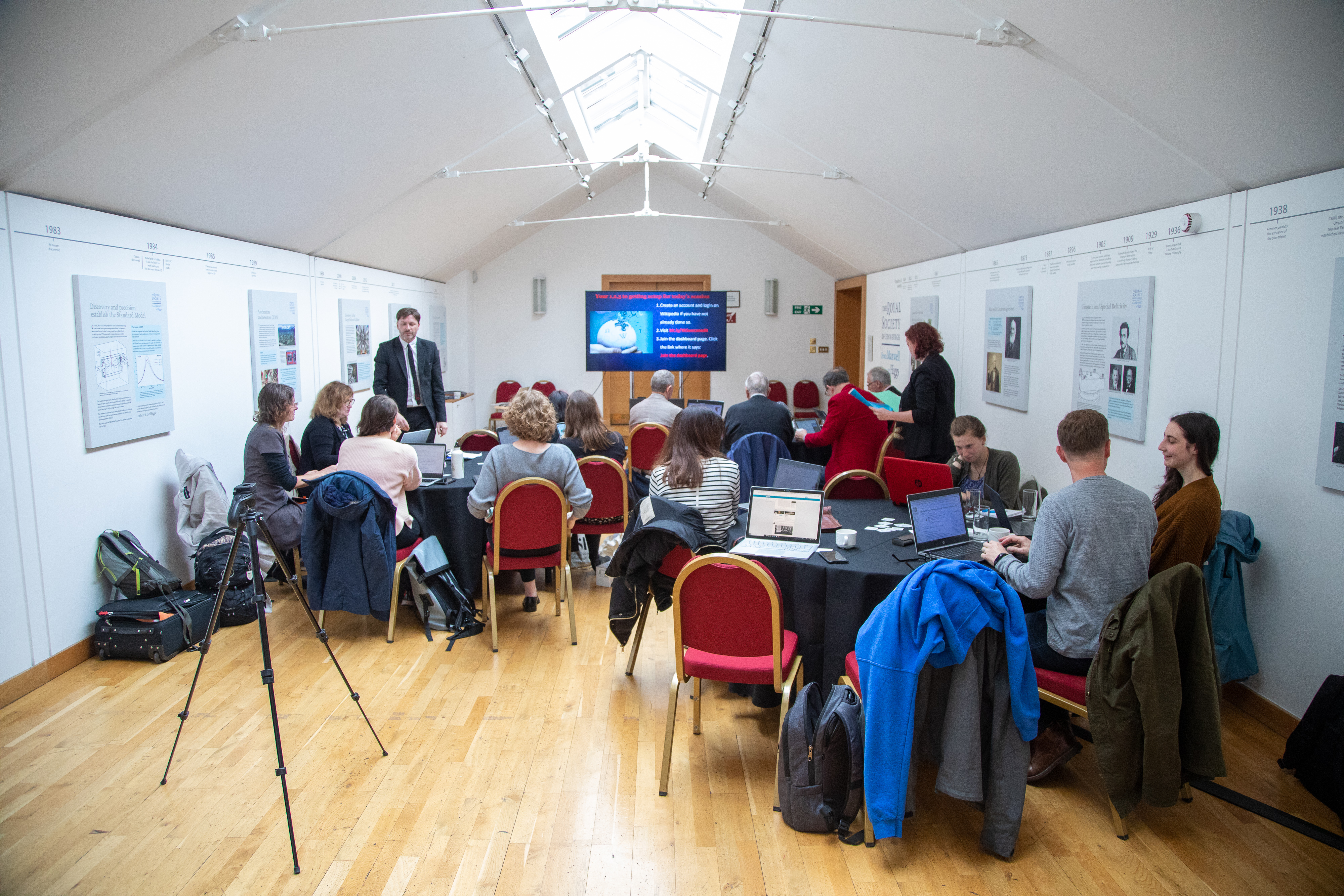 Young Academy of Scotland Women in Science editathon